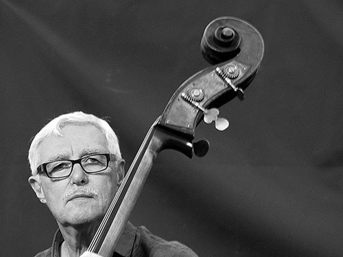 Bo Stief